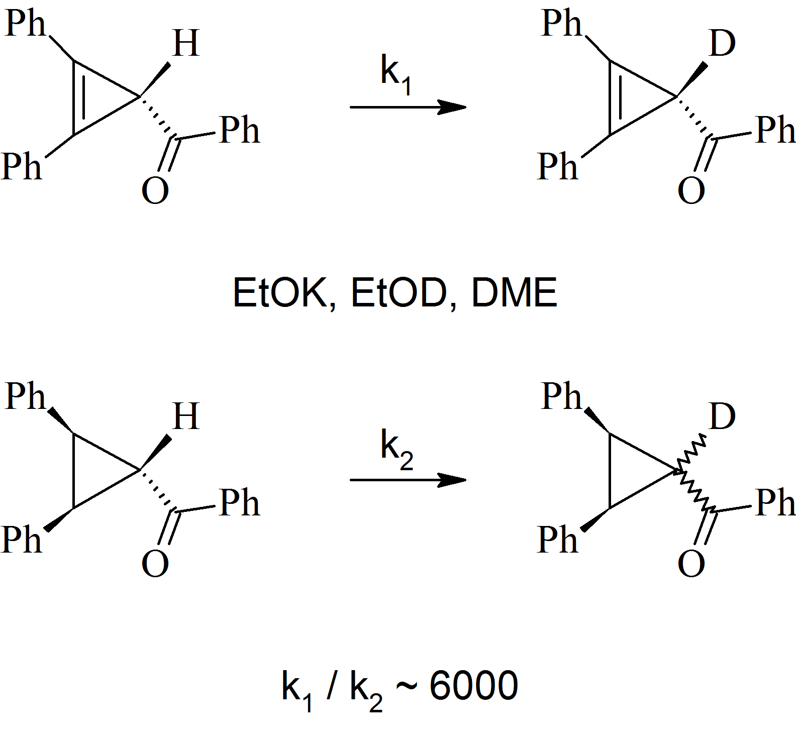 Relative rate of deprotonation of a cyclopropene vs. the corresponding cyclopropane, Breslow et al. JACs 1967, 89, 4383